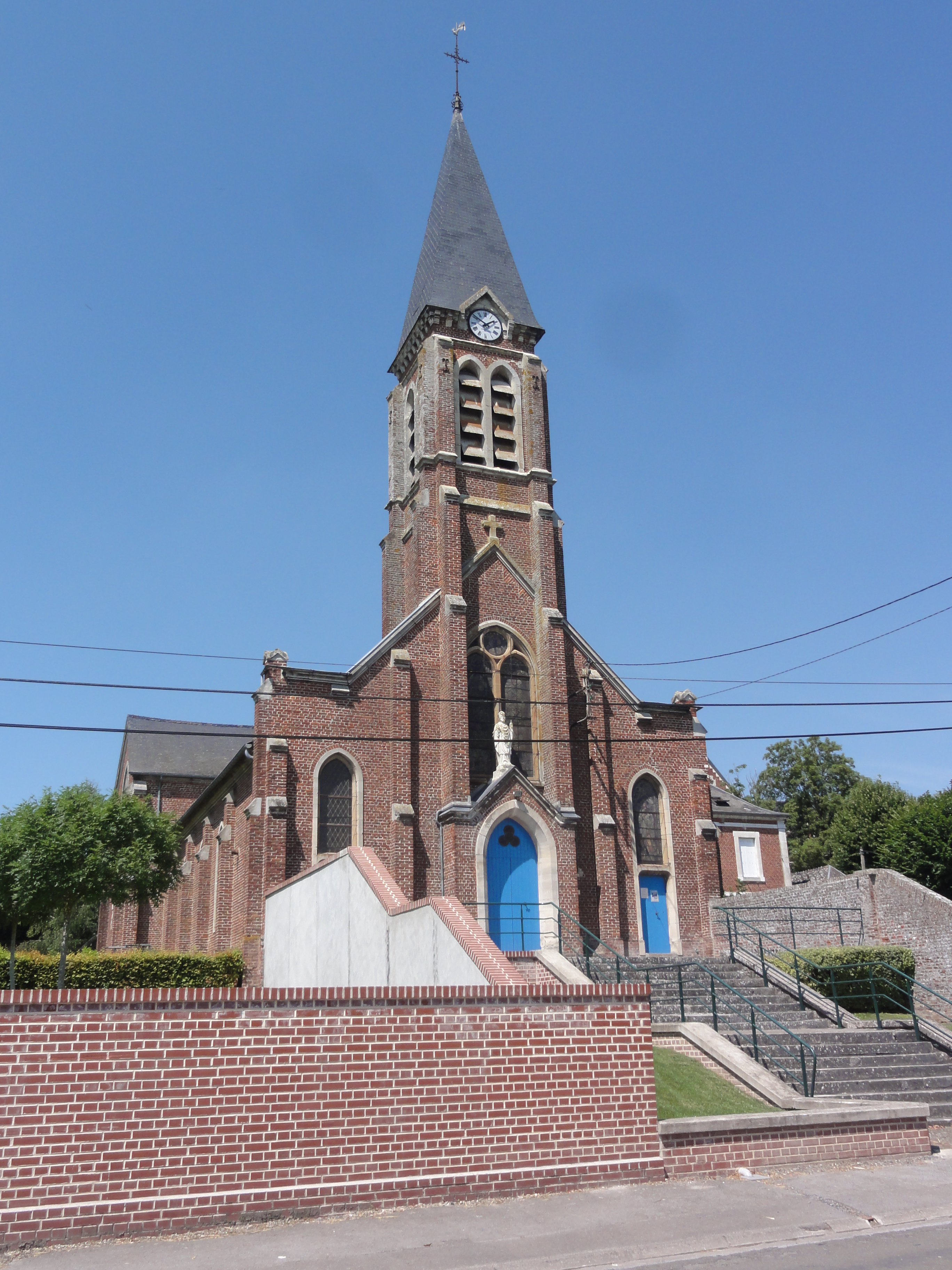 Chevresis-Monceau (Aisne) église